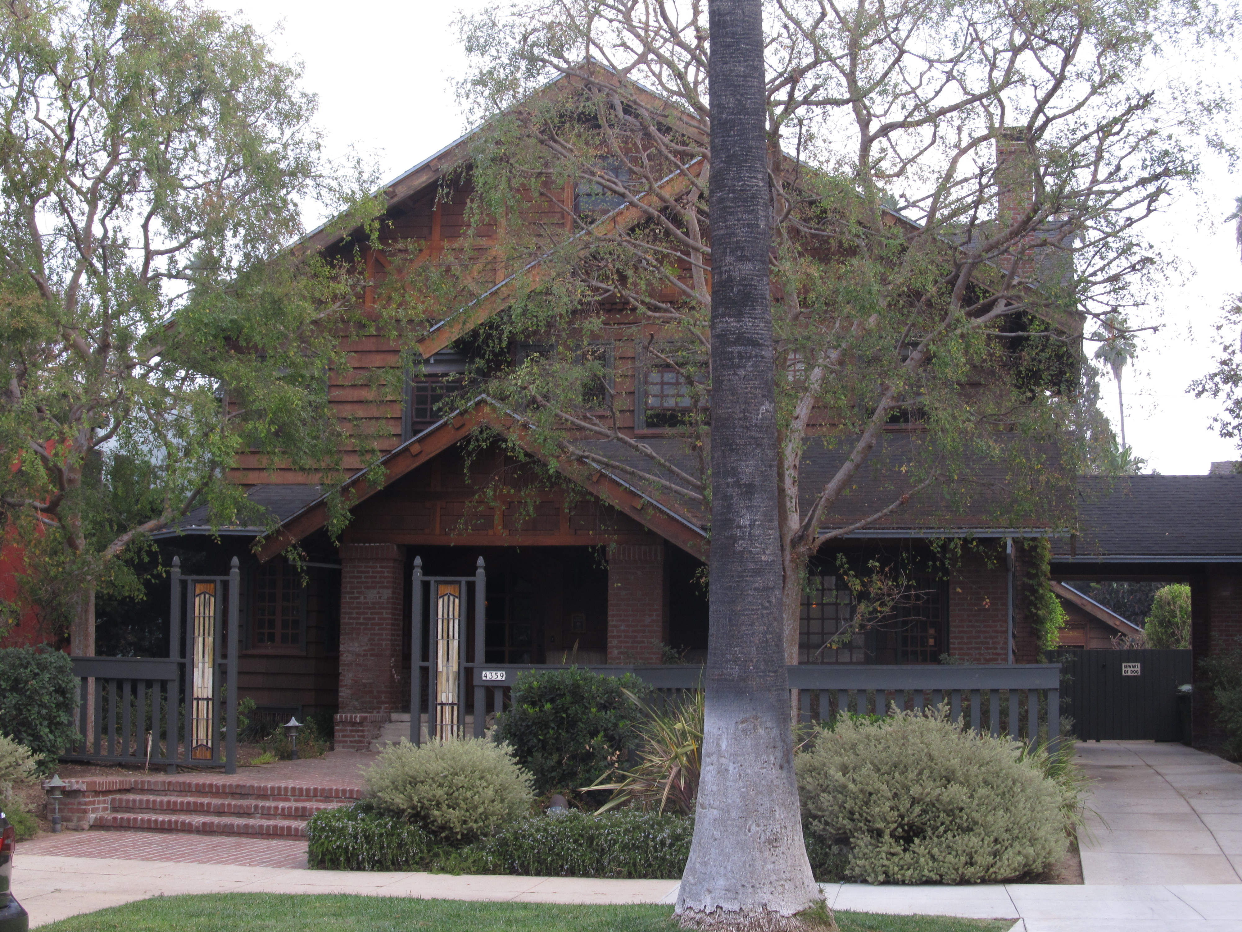 Charles C. Hurd Residence located in Victoria Park, Los Angeles